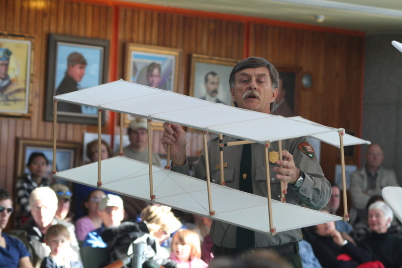 Park Ranger giving talk at Wright Brothers Memorial